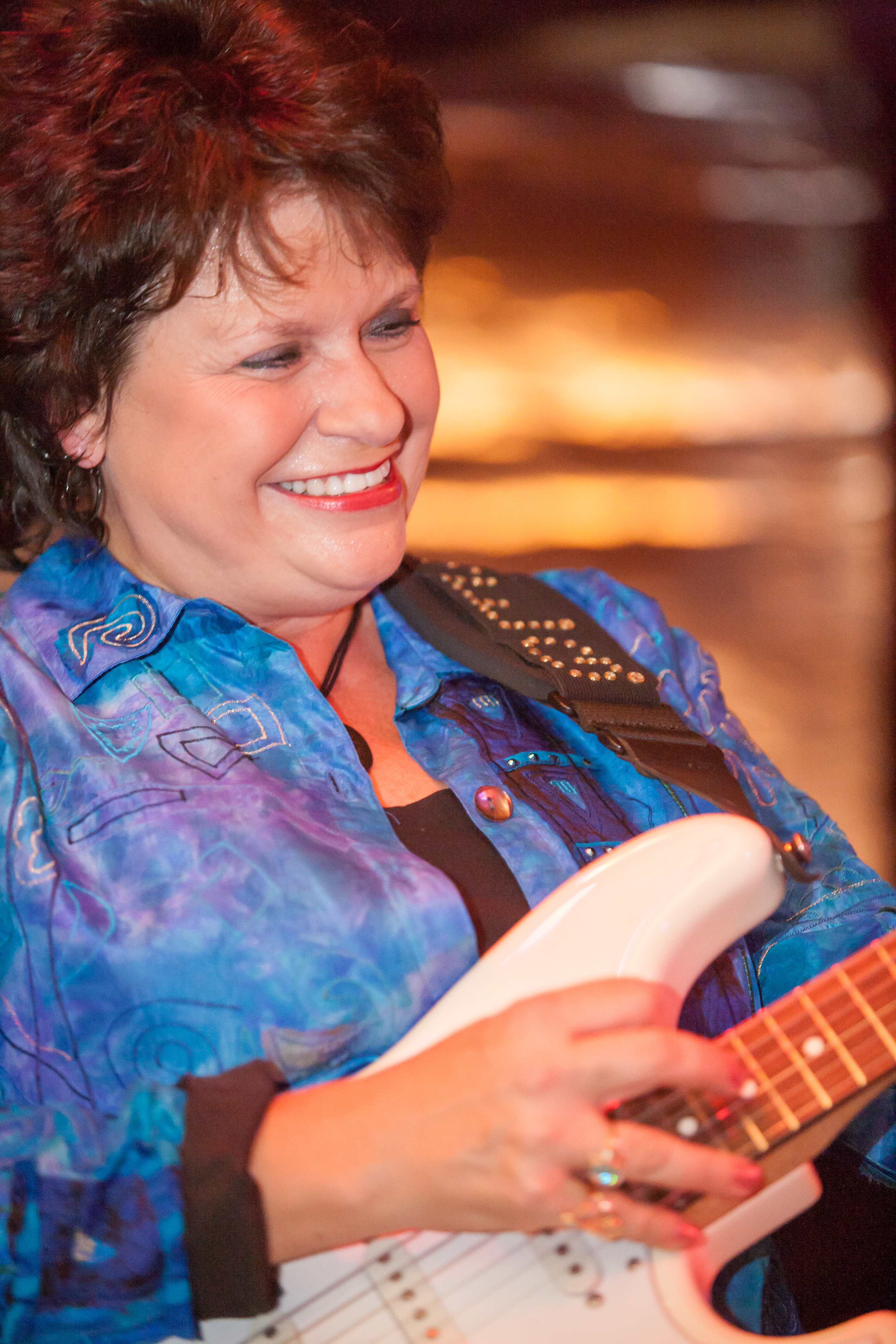 E.G. Kight on stage at “Mau­se­falle 33⅓” in Bonn